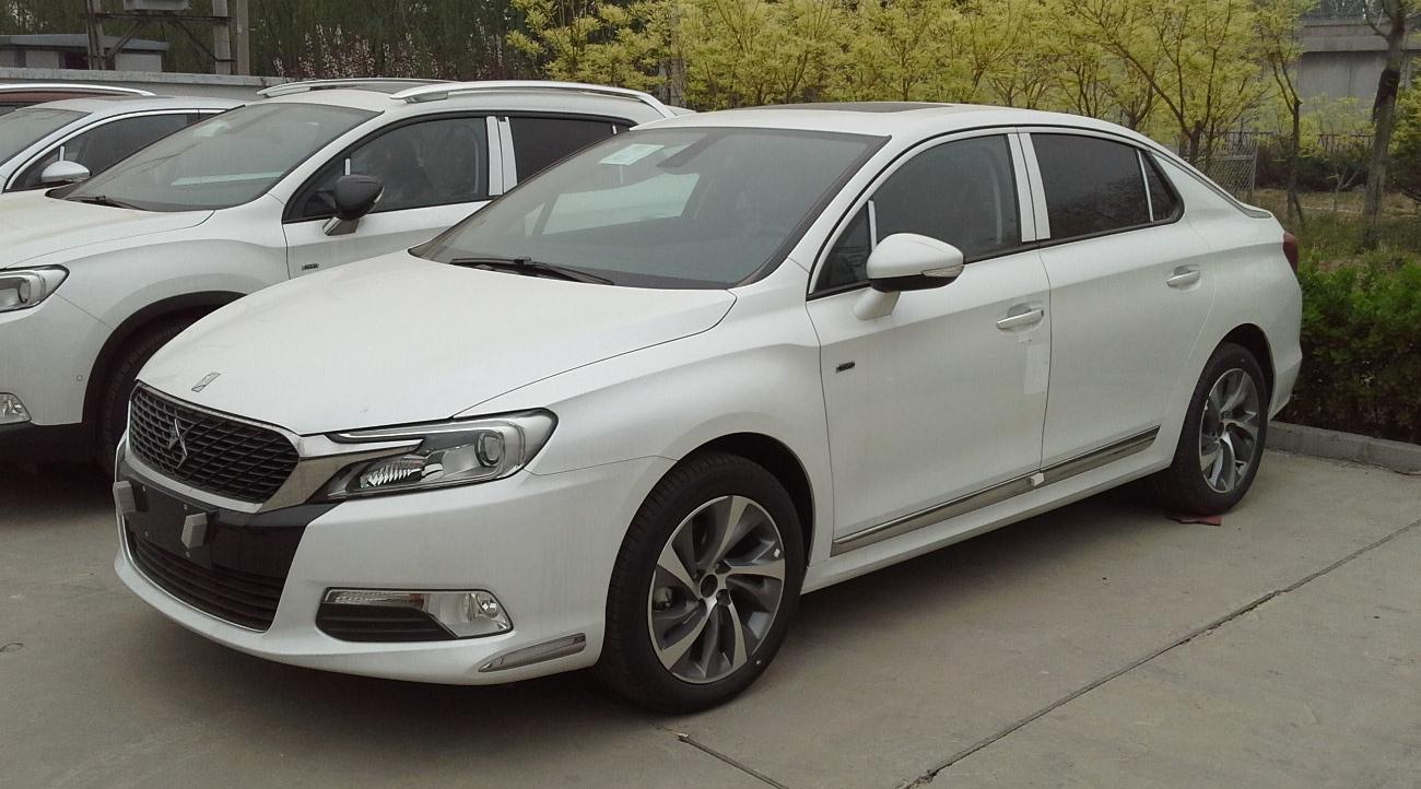 DS 5LS photographed in Beijing, China.